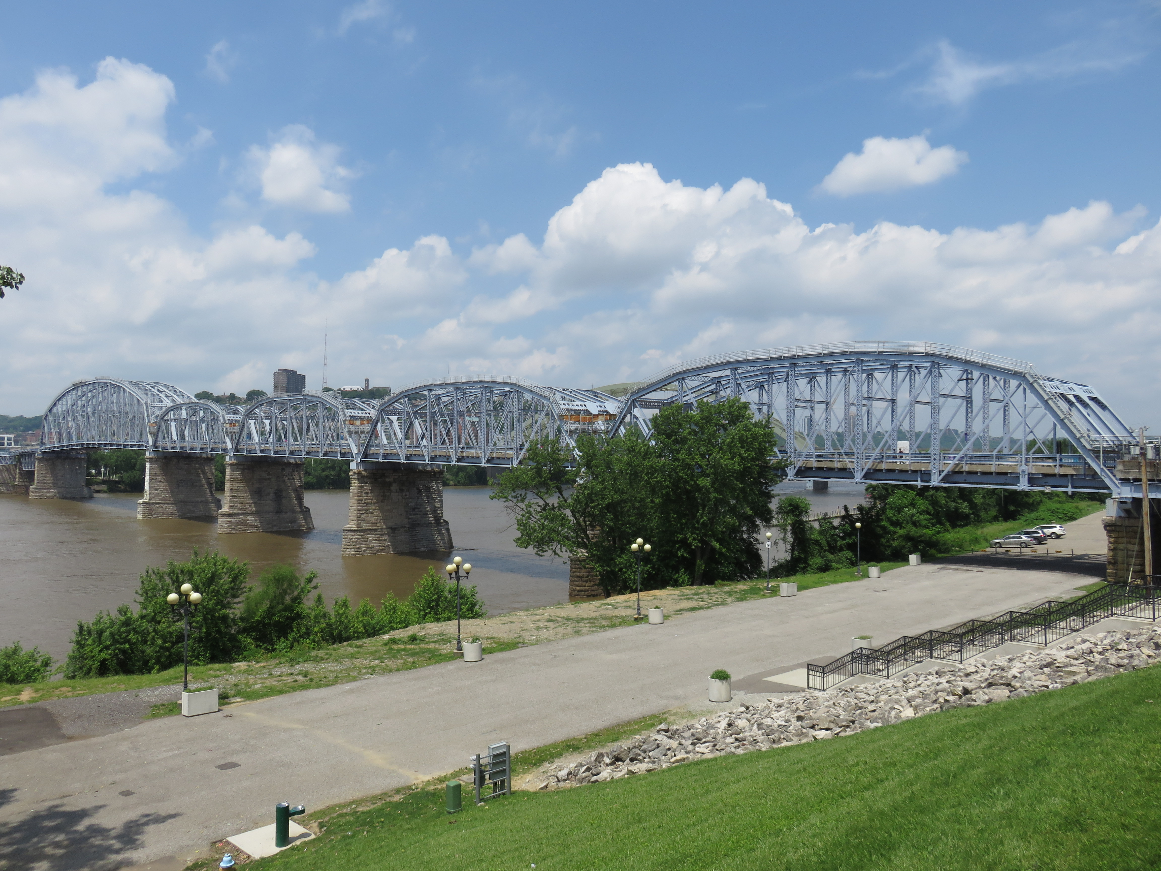 Newport Southbank Bridge in Cincinnati, Ohio in 2017